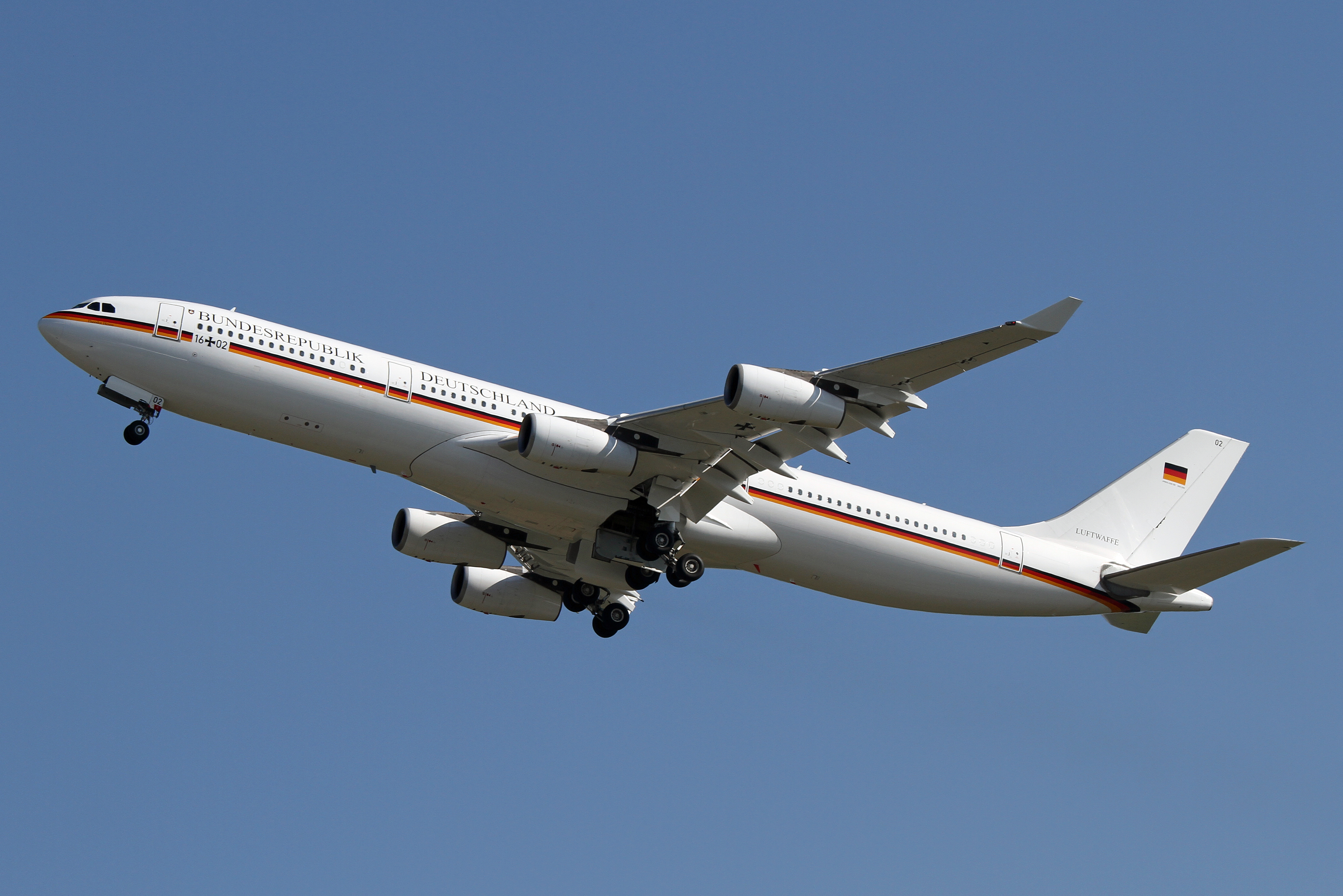 Luftwaffe Airbus A340-300 at Hanover